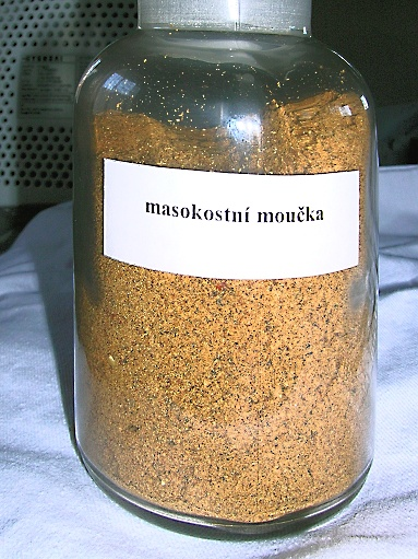 A bottle with meat and bone meal